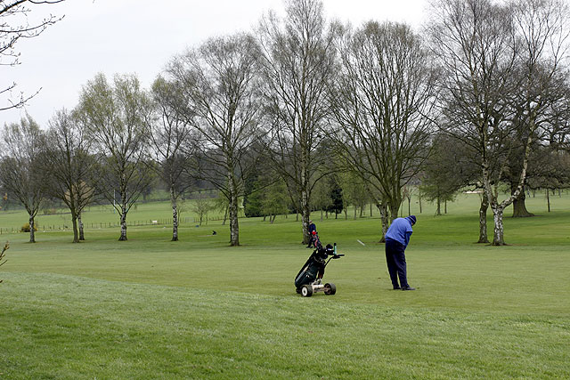 Lilleshall Hall Golf Course. 5813 yards, SSS 68.